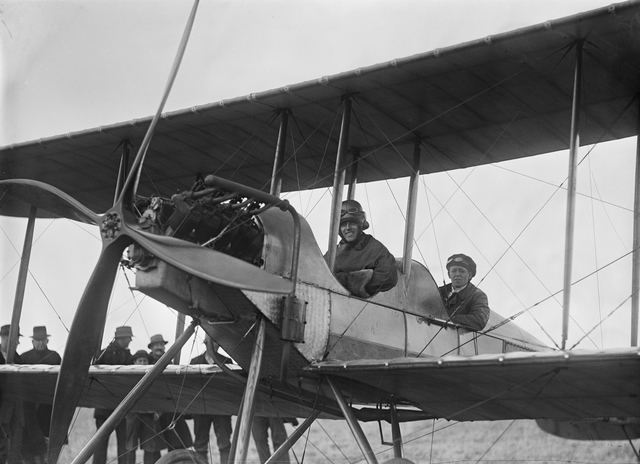 Lieutenant (Lt) H A Petre (later Major) (left) and Lt E Harrison (later Major), Australia's first two military flying instructors, in a B.E.2a at Central Flying School at Point Cook, Vic.